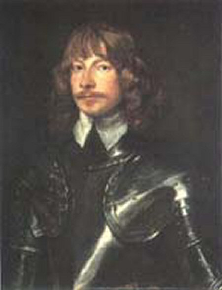 James_Graham_5th_Earl_of_Montrose_(1612-50)